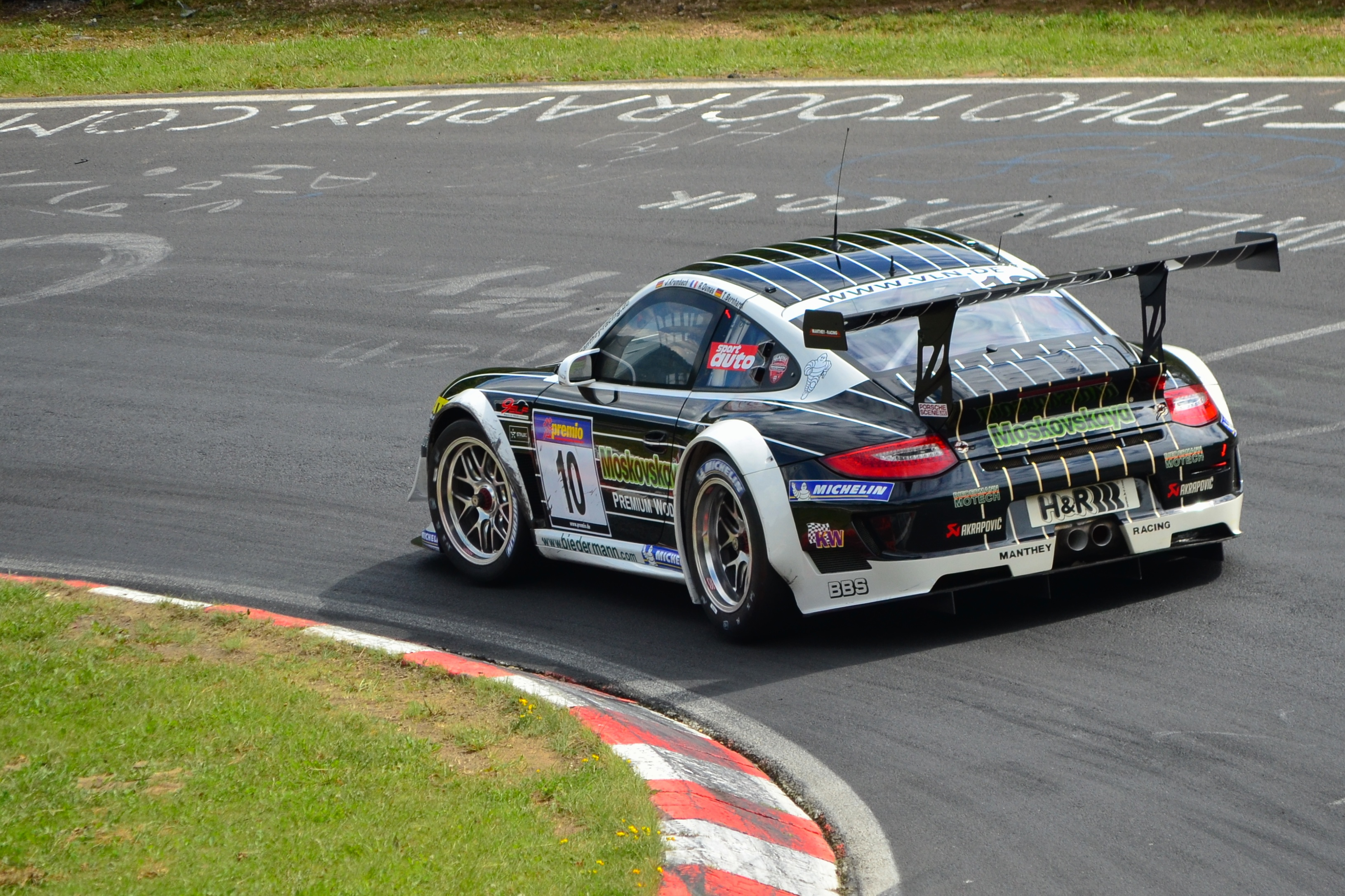 Photo taken during the "6h ADAC Ruhr-Pokal-Rennen" on the Nürburgring Nordschleife